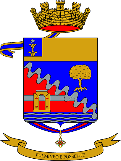 Coat of Arms of the 132° Artillery Regiment; Italian Army.